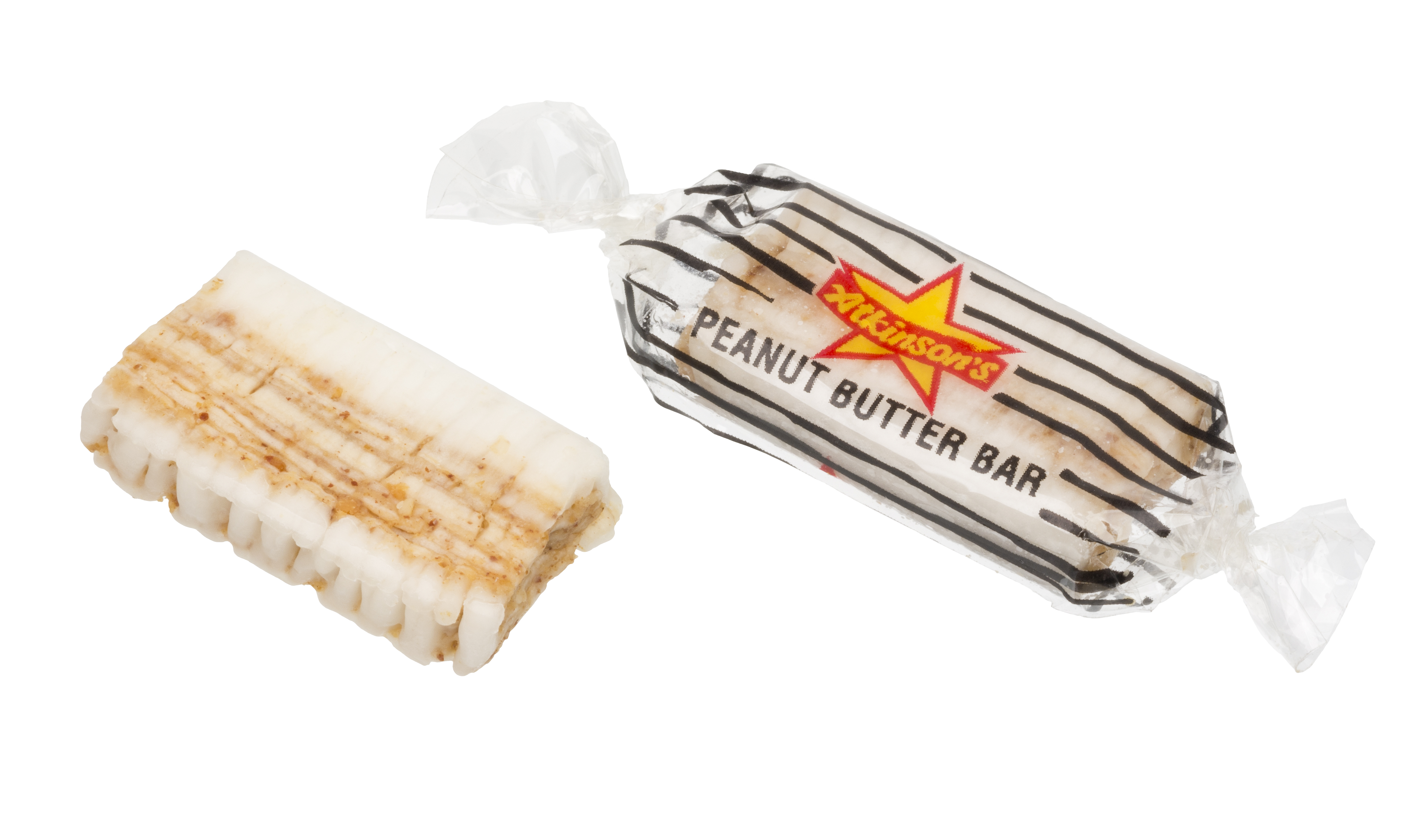 A Peanut Butter Bar, a peanut-based hard candy made by the American confectioner Atkinsons' Candy Company.